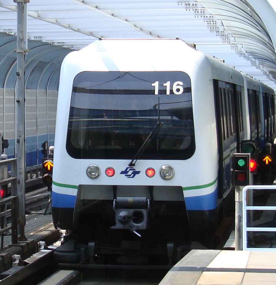 Taipei MRT CITYFLO650 end of the EMU,Replacing direction becomes head end.